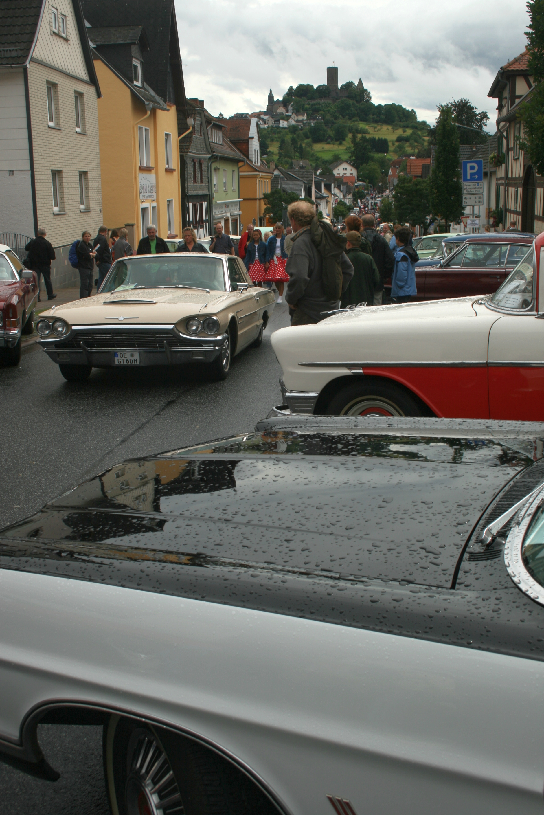 The Golden Oldies Festival in Wettenberg, Central Hesse, Germany